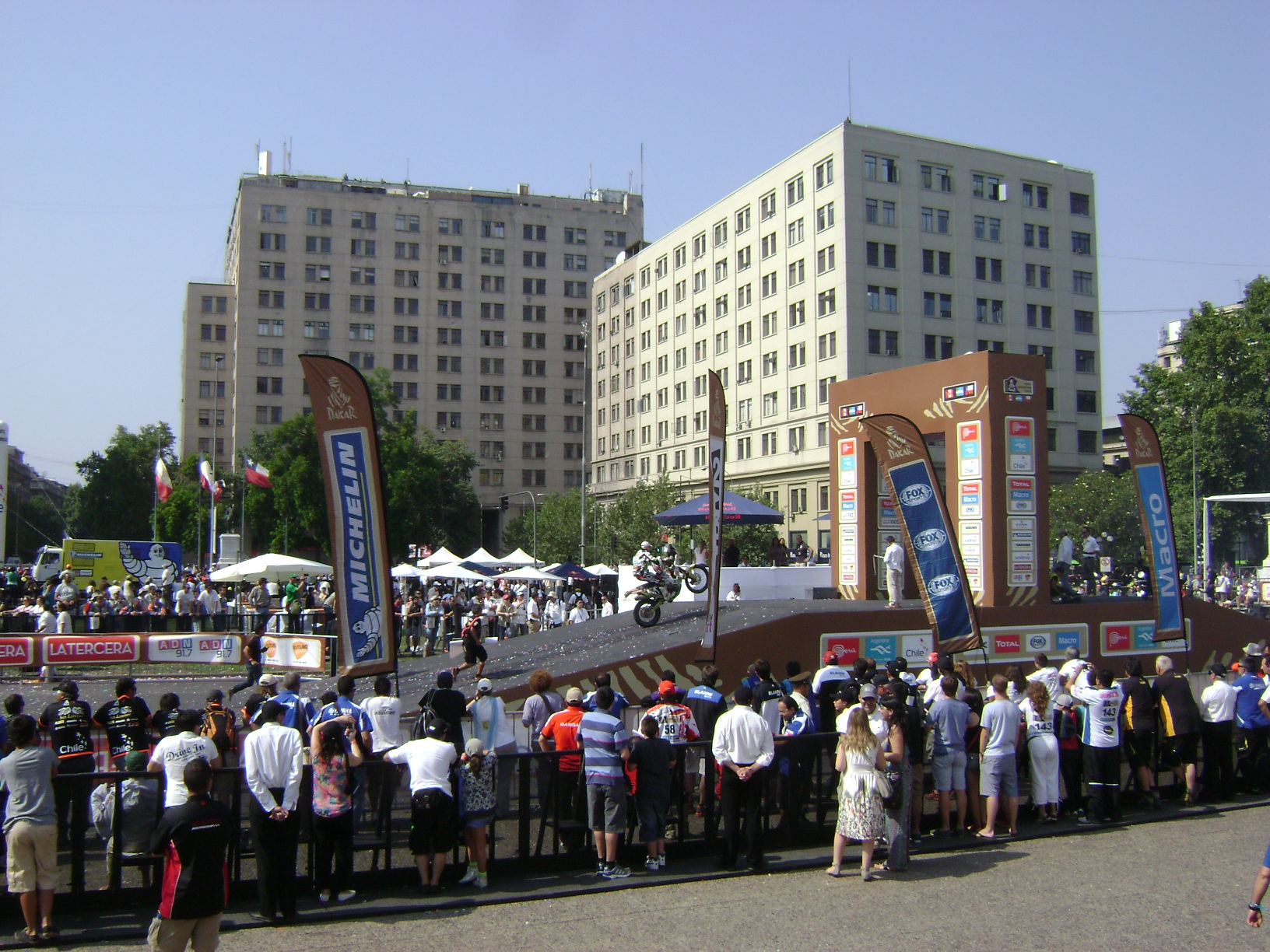 Dakar 2013 Finish and Award Ceremony, Santiago, Chile. Finish line.